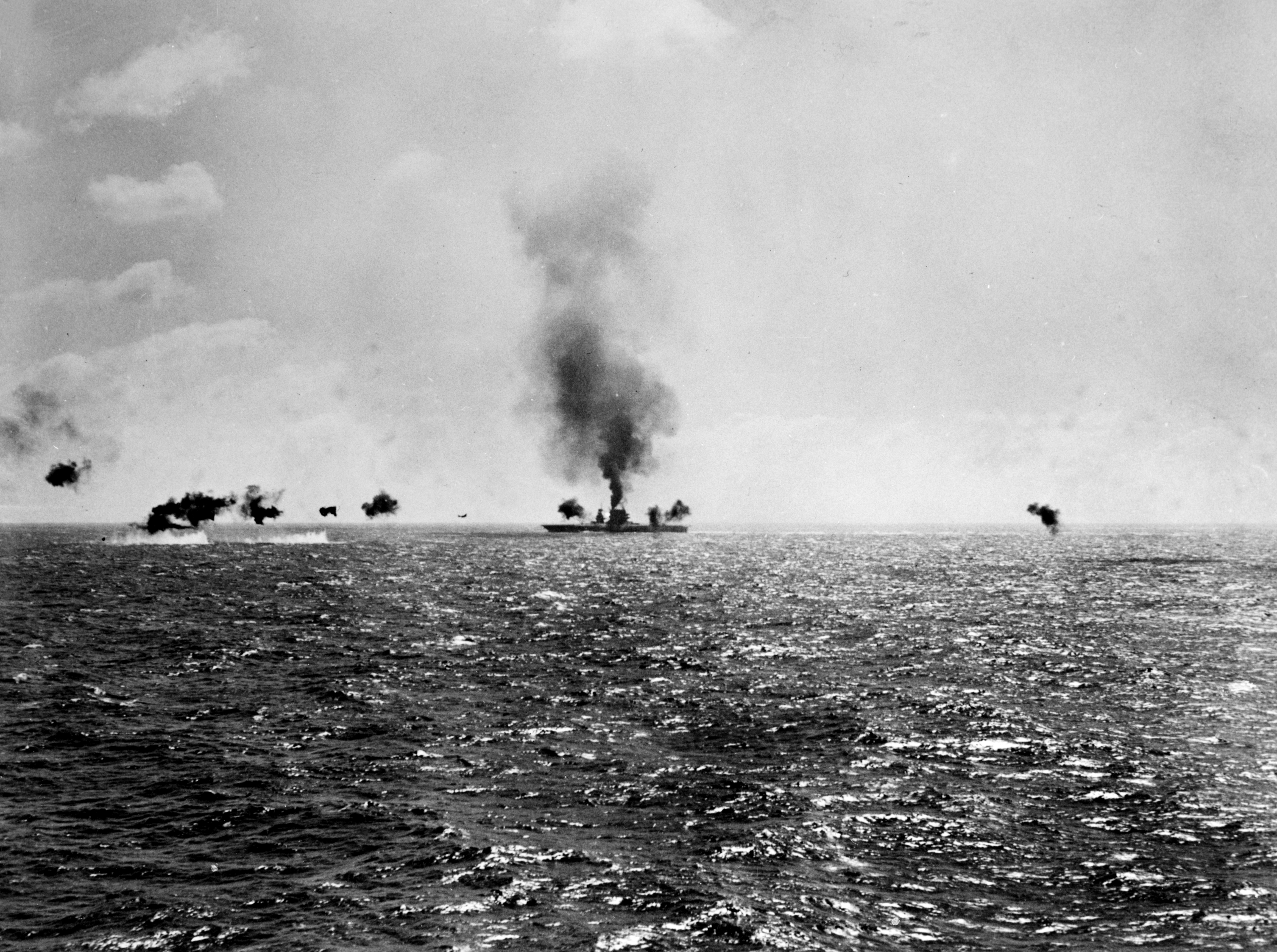 The U.S. Navy aircraft carrier USS Lexington (CV-2) hit and burning, during the later part of the Japanese air attack on 8 May 1942 during the Battle of the Coral Sea. Note the anti-aircraft bursts in the vicinity, and a plane off the ship's bow.